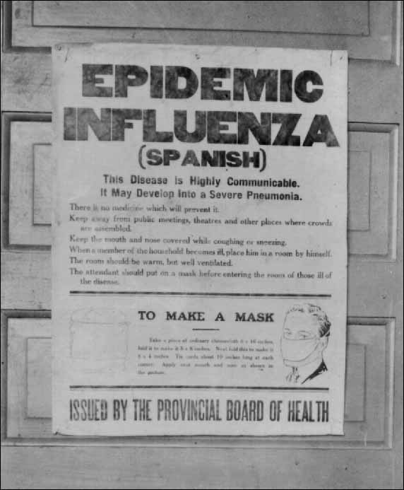 A period photo of a poster issued by Alberta's provincial board of health alerting the public to the influenza epidemic. The poster gives information on the Spanish flu, and instructions on how to make a mask.